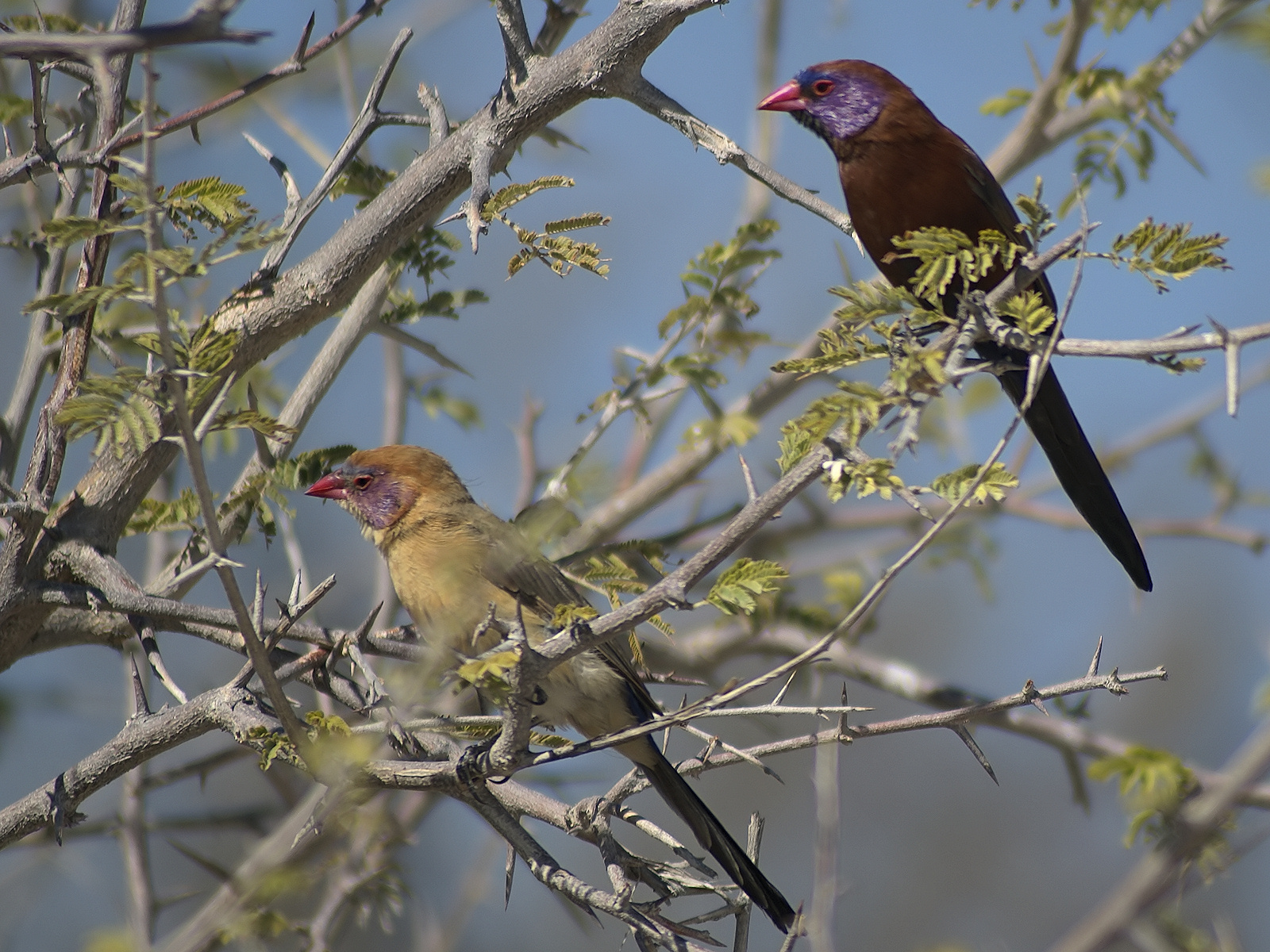 Couple Violet-eared Waxbill at Kalkheuwel waterhole, Etosha, Namibia.